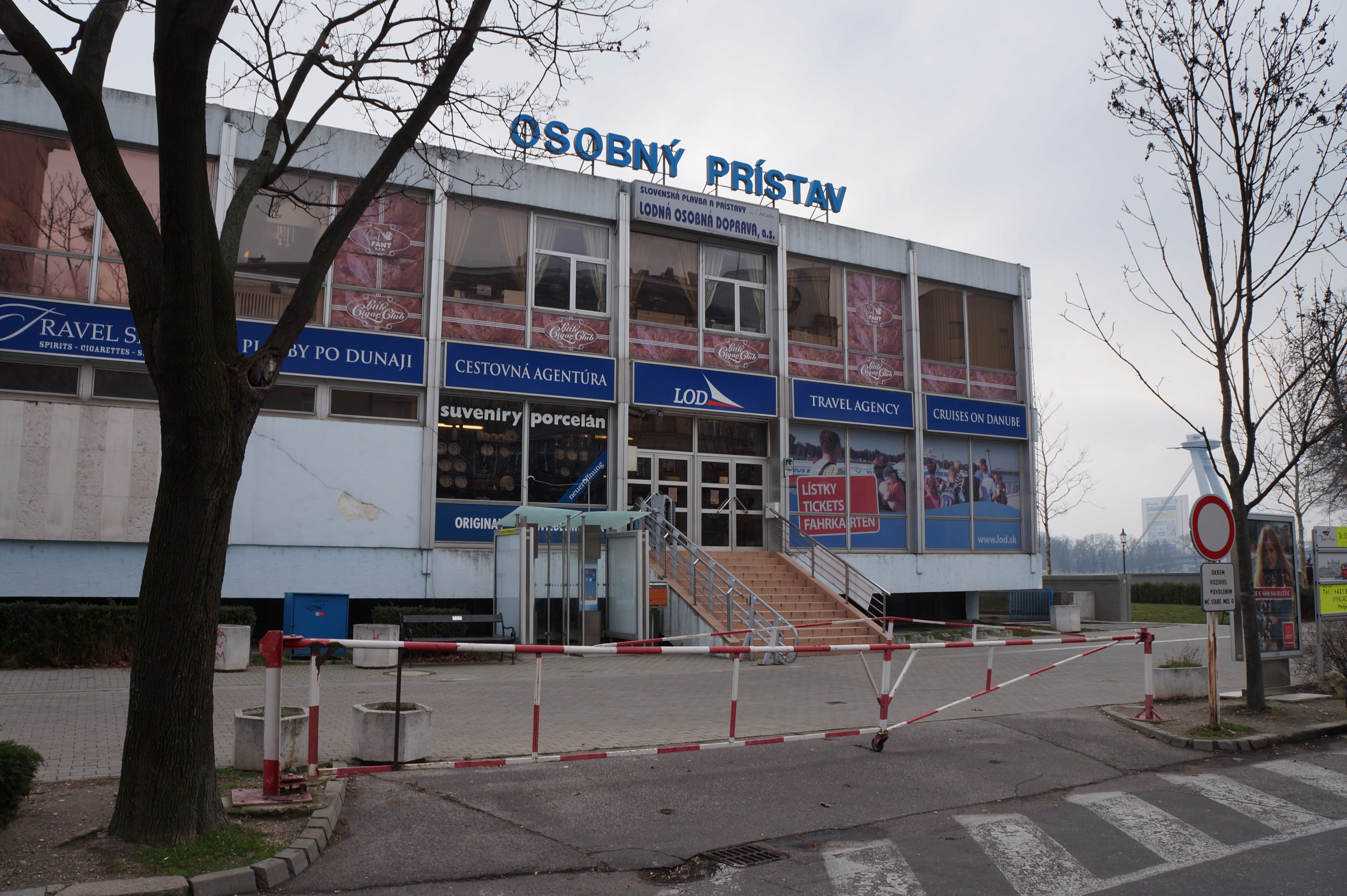 Bratislava Port Passenger Terminal (Osobný prístav) on the street Vajanského nábrežie 2.